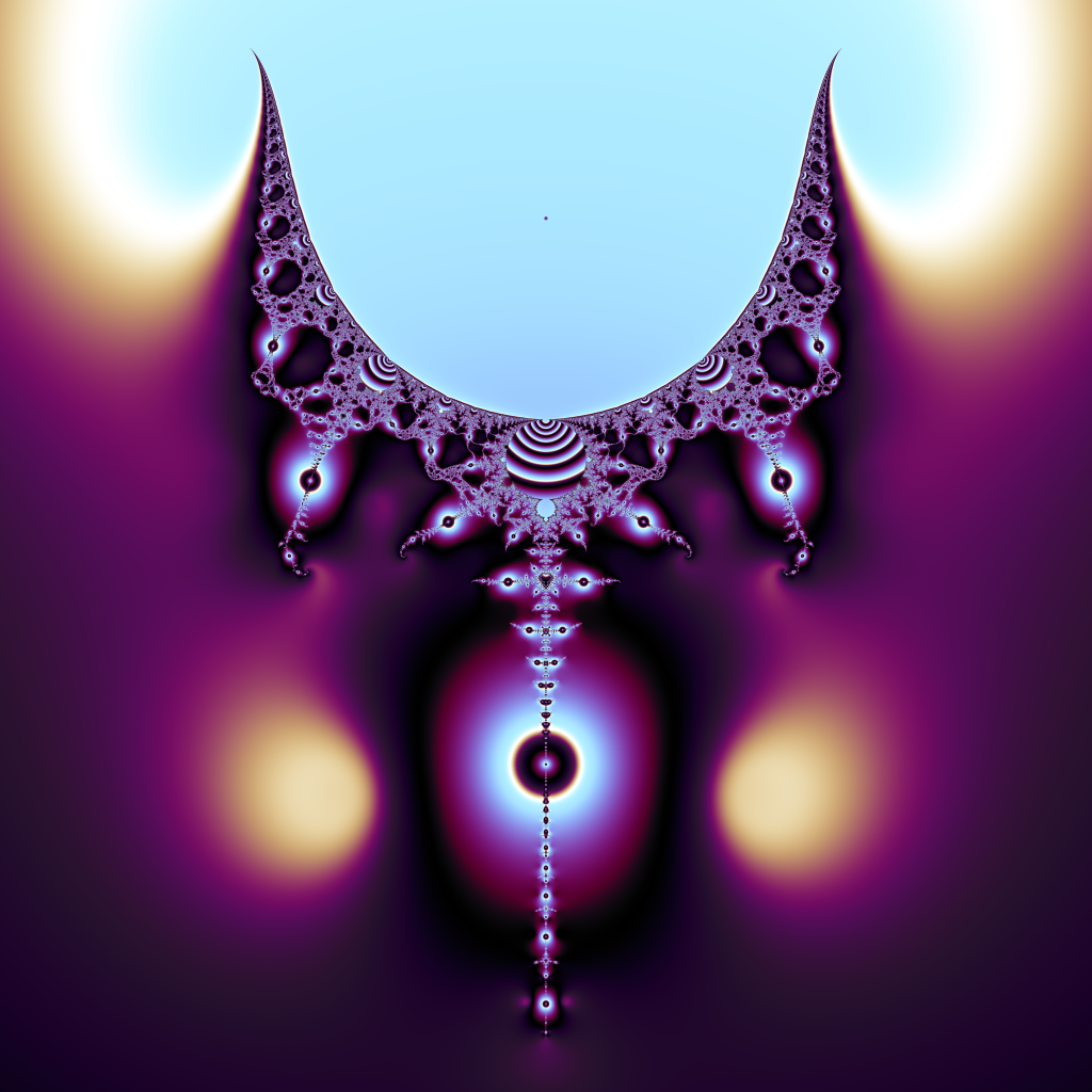 A Rendering of the Nova Fractal using UltraFractal 4.02